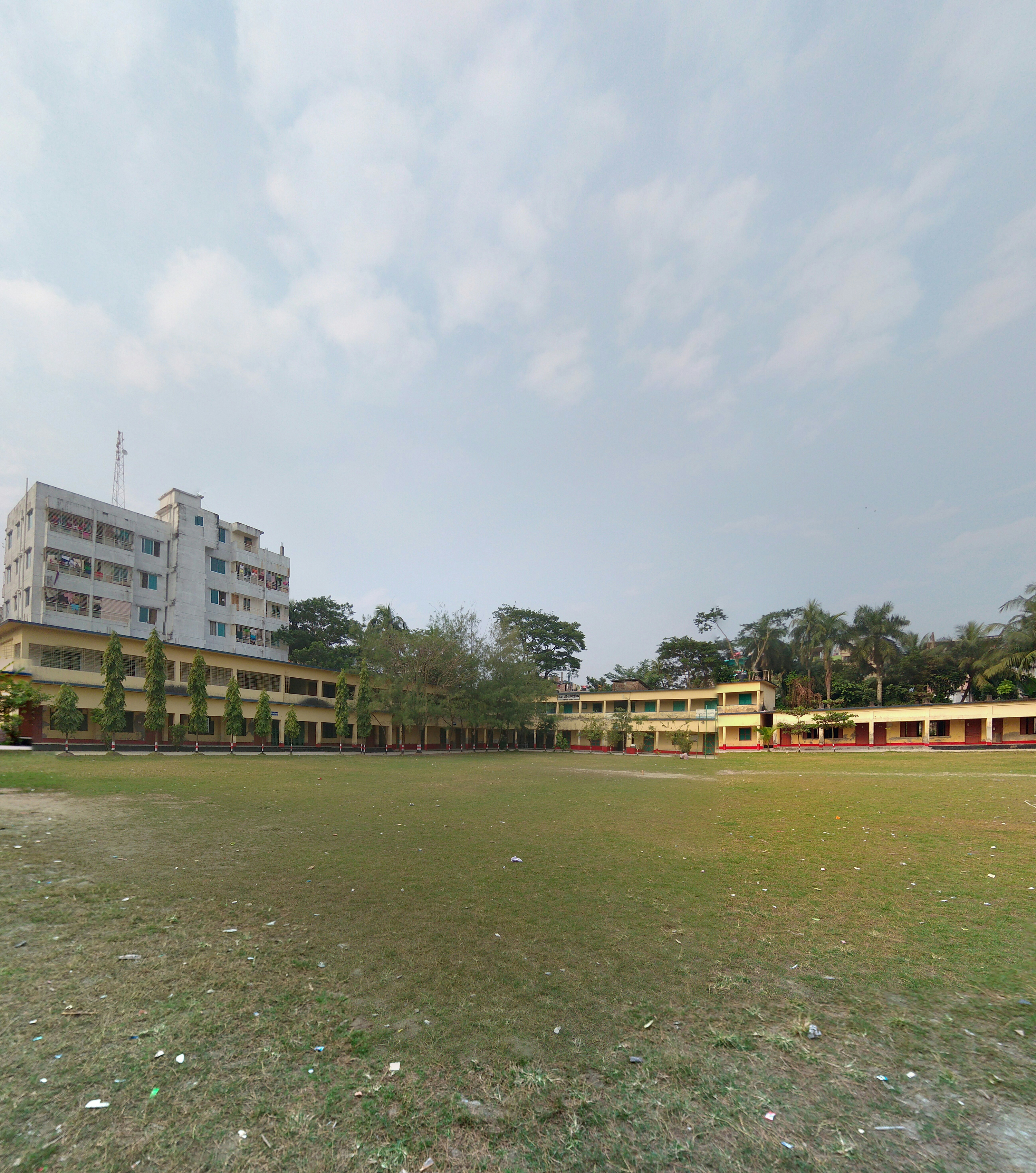 Asmat Ali Khan (A.K) Institution, Barisal Academic Building